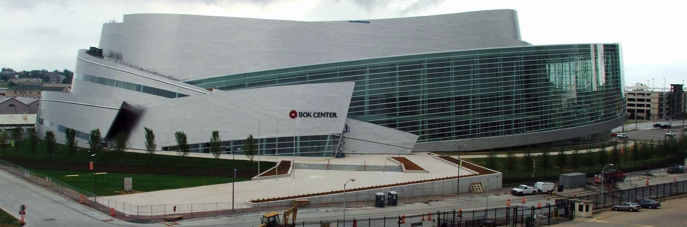 BOK Center as seen from the top level of the Tulsa Convention Center parking garage